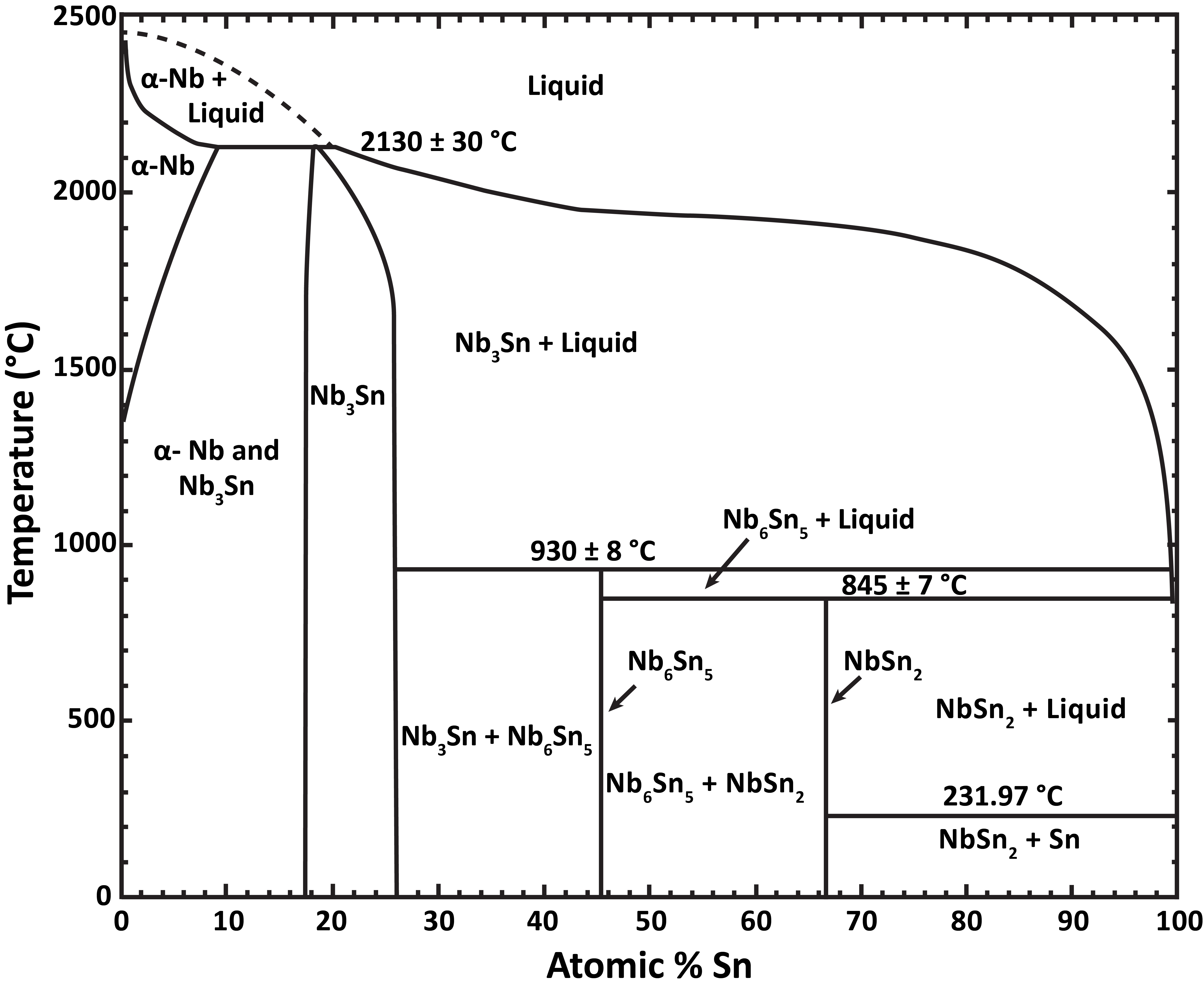 The Nb–Sn phase diagram. Data extracted from